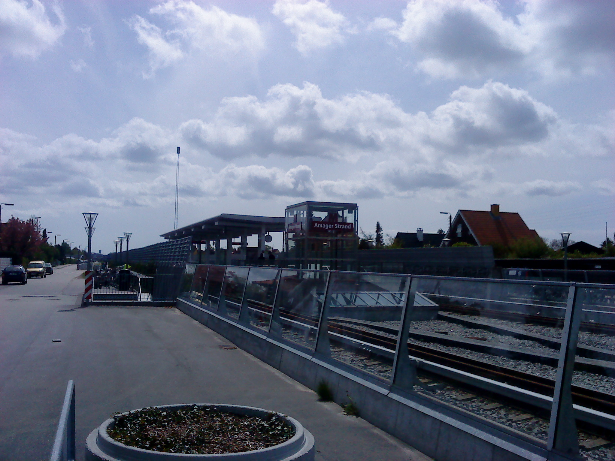 Amager Strand Station at the Copenhagen Metro, Denmark